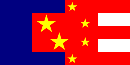 Variant of the flag of the Alliance in the Firefly TV show